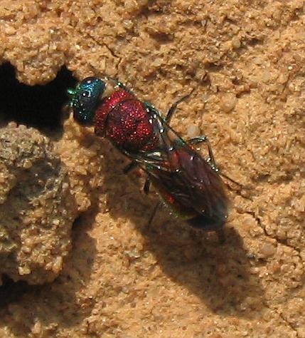 Chrysis viridula (cuckoo wasp)